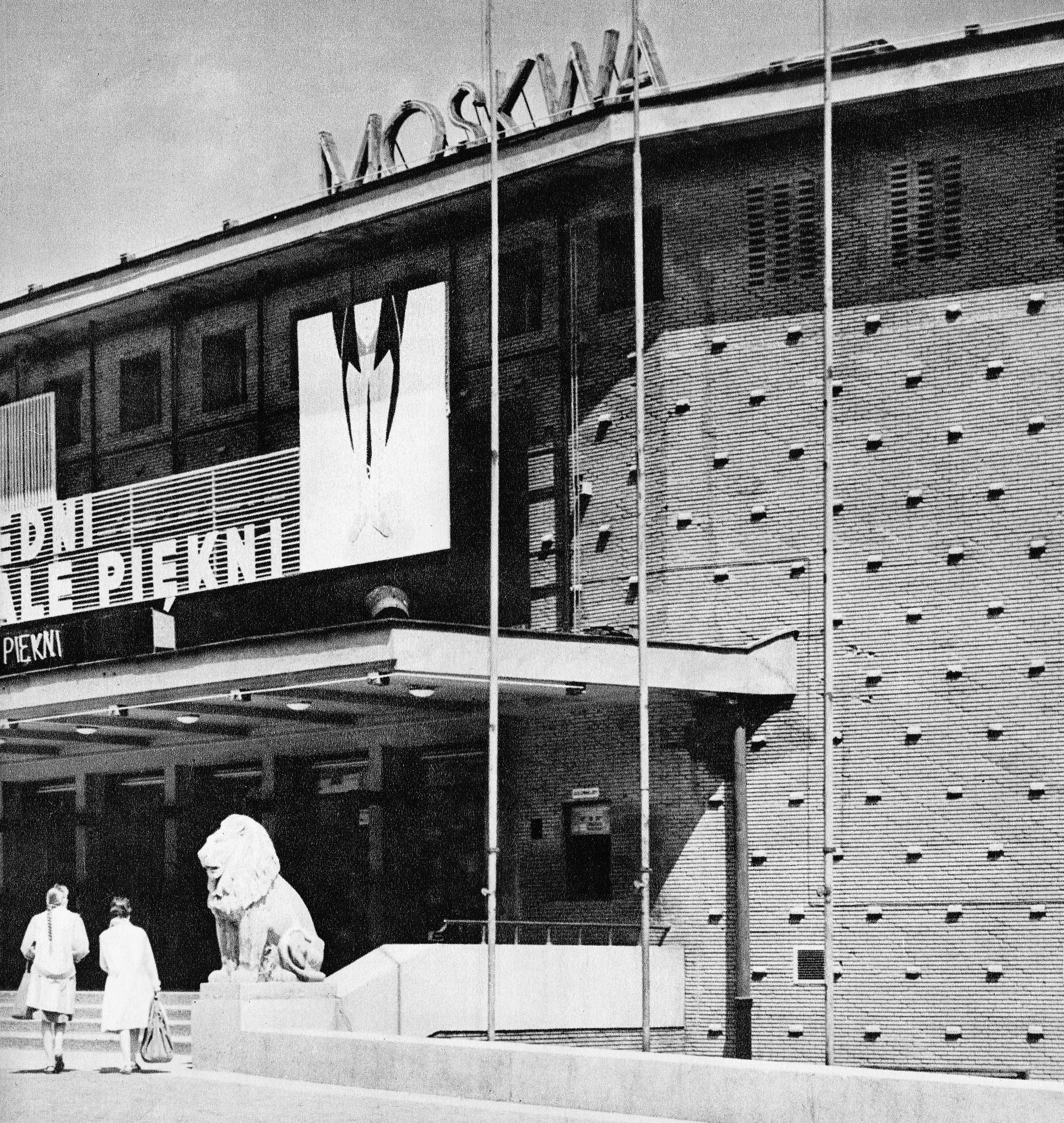 Moskwa Cinema in Warsaw